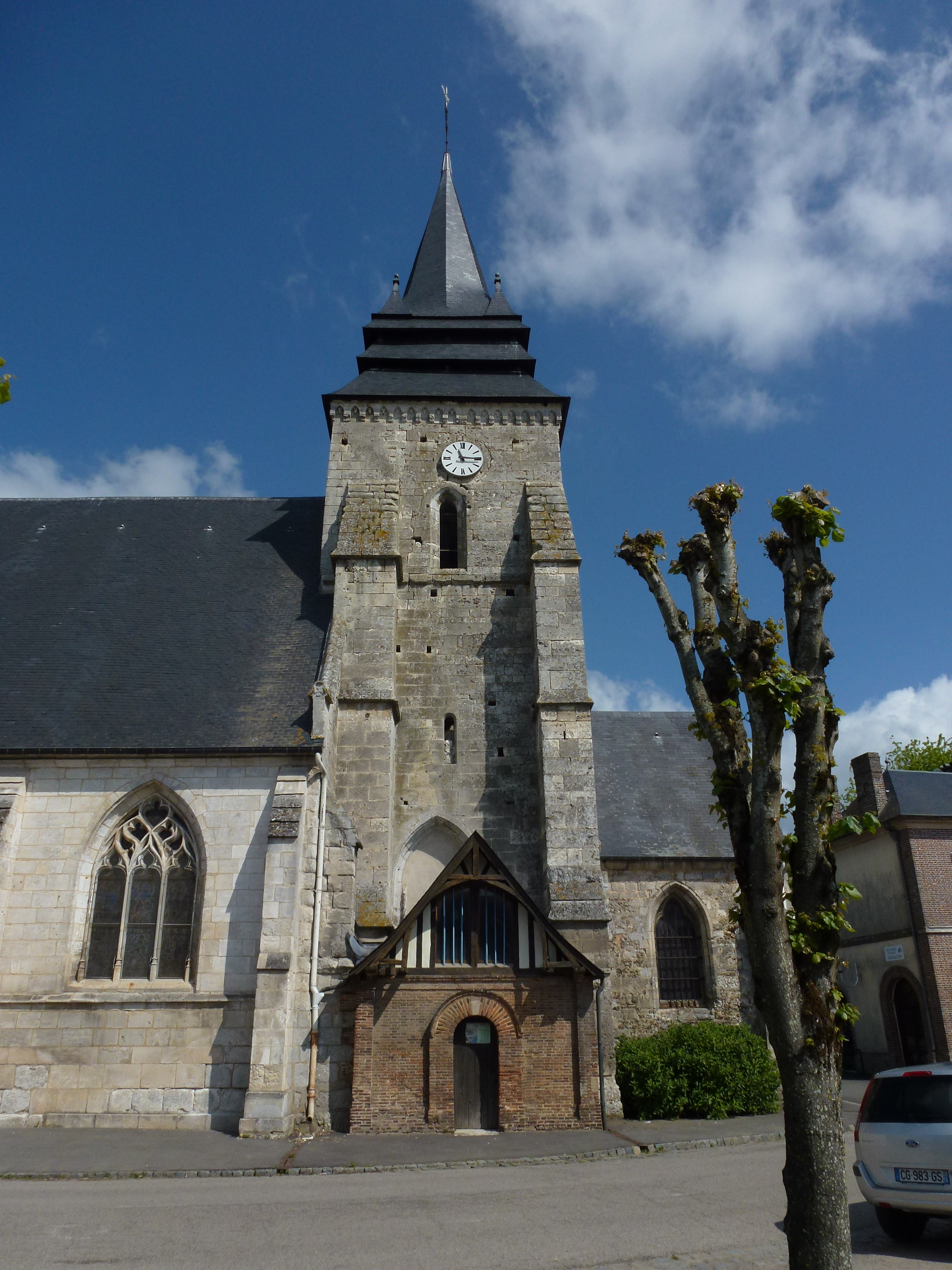 Le Gros-Theil (Eure, Fr) église